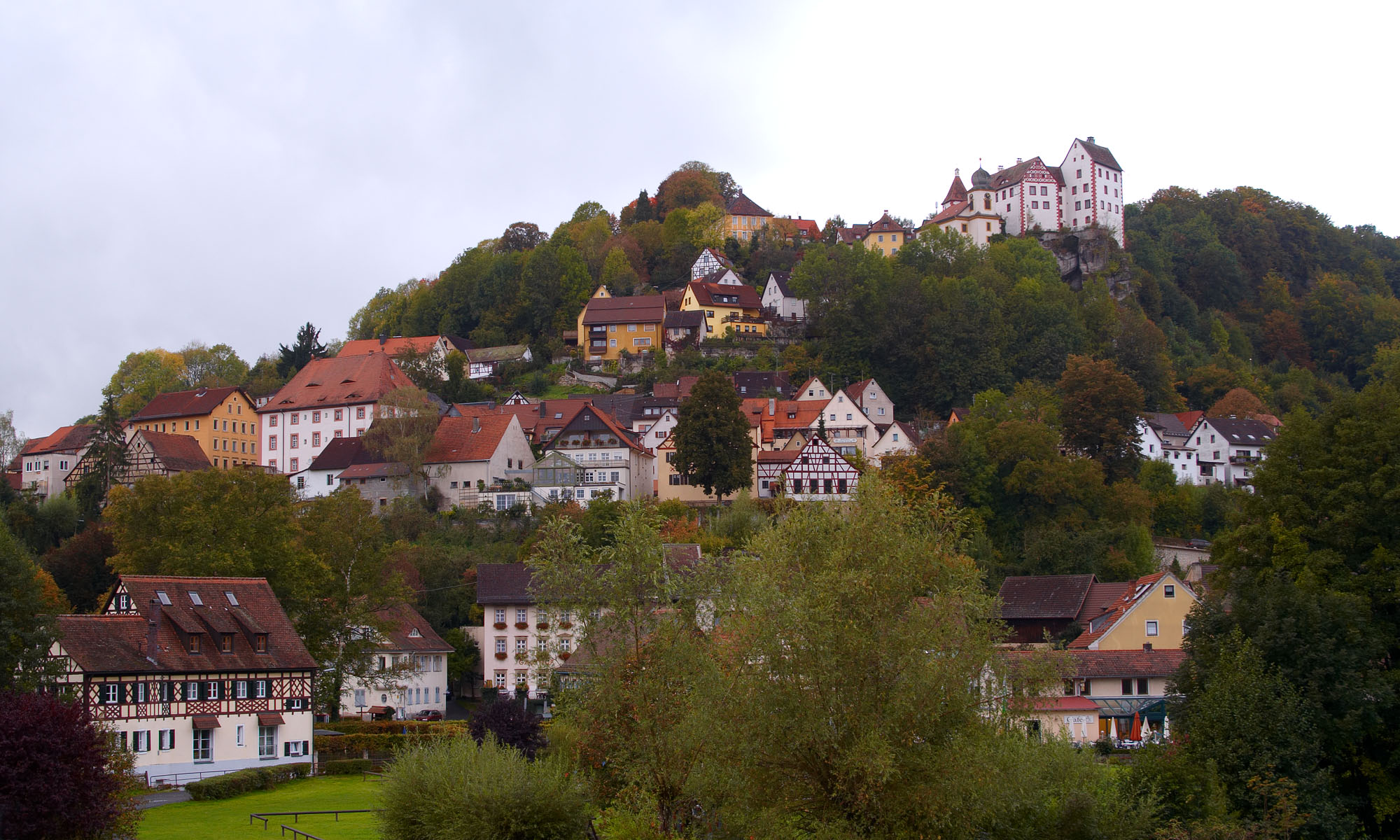 View from west on the city of Egloffstein with the Castle Egloffstein on the right.